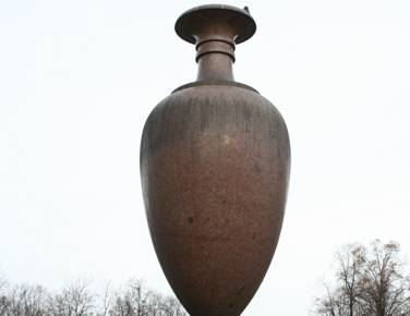 A porphyry vase in the Summer Garden, Saint Petersburg (before destruction)